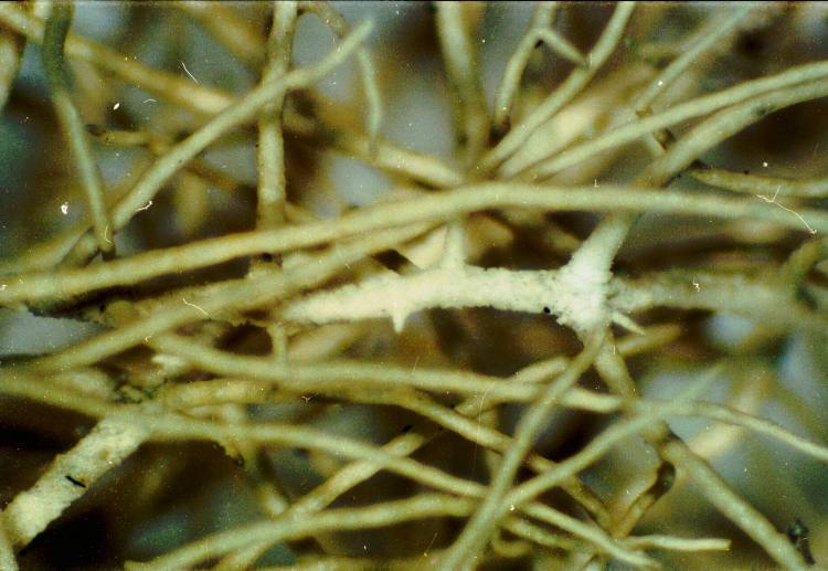 Usnea longissima (L.) Ach., 1810 (photograph of a herbarium specimen; note the white patches of medulla on some of the main branches) Growing on Abies in open woods on the shore of Lake Superior in Neys Provincial Park; collected and identified by Richard E. Riefner (No. 81-599, 2 Aug 1981; specimen is now in the Lichen Herbarium of the New York Botanical Garden.